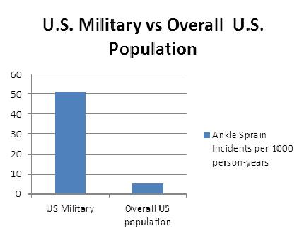 A graph that shows the difference of ankle sprain prevalence between the general U.S. population and the U.S. military